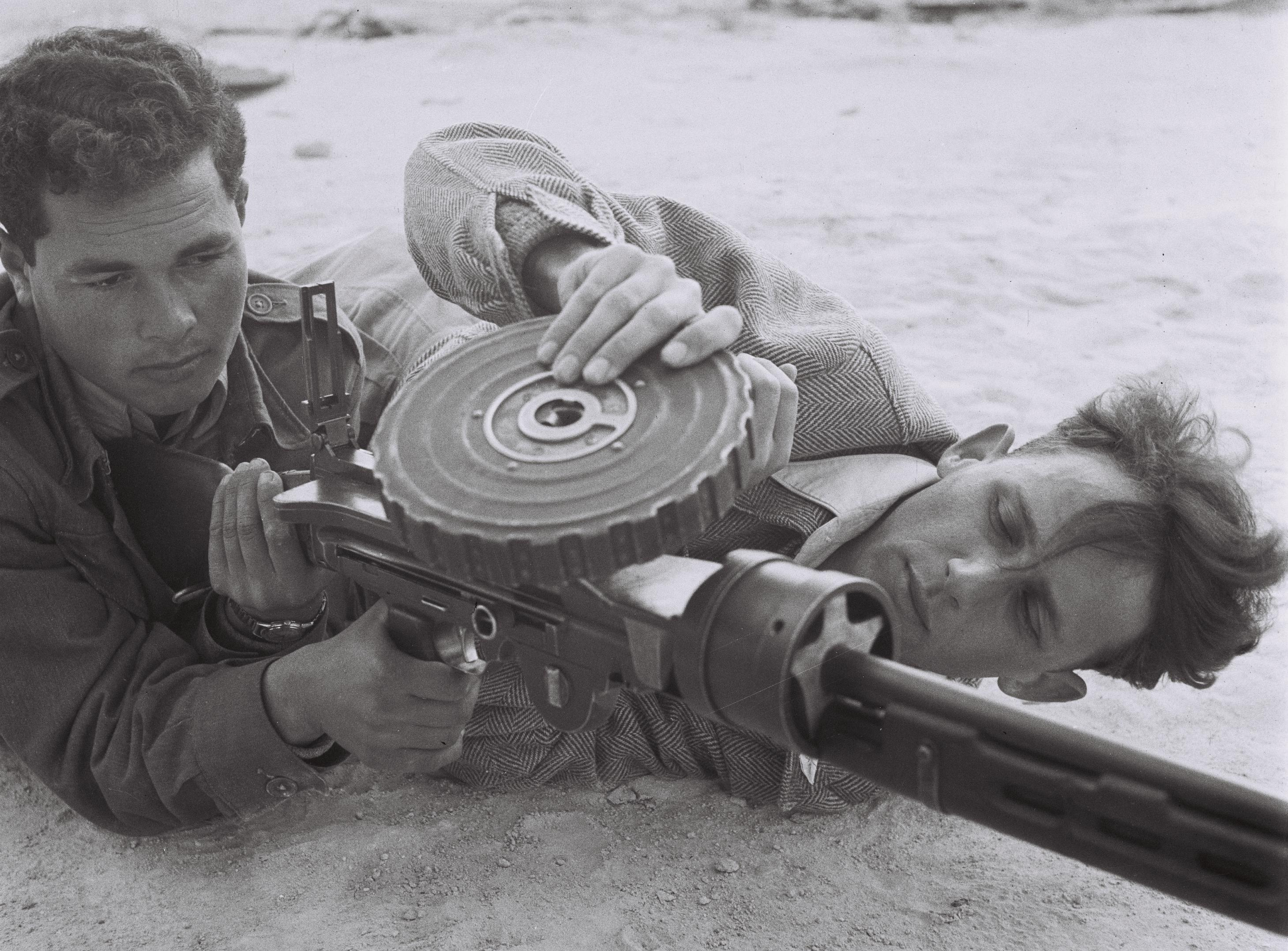 Hagana members training with a Czech made light machine gun at Mahane Yona in Tel Aviv. חברי הגנה מתאמנים עם מכונת יריה תוצרת צ'כיה במחנה יונה בתל אביב Photo: Zoltan Kluger (1896–1977) Alternative names Qlwger, Zwlṭan; Zolṭan Ḳluger; Kluger, Z.; W. von Szigethy; W. Von SzighethyDescriptionHungarian-Israeli photographerDate of birth/death 8 February 1896 16 May 1977Location of birth/death Kecskemét ManhattanAuthority control : Q7035699 VIAF: 19504001 ISNI: 0000 0000 6686 1613 ULAN: 500483392 LCCN: no2008144265 Open Library: OL6614008A WorldCat creator QS:P170,Q7035699 , 02/22/1948